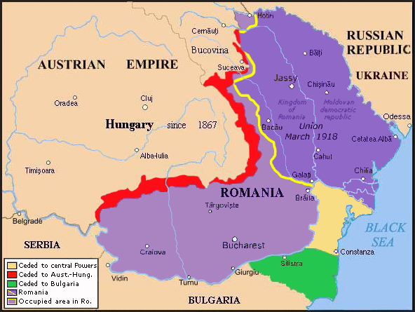 Romania's lost territories due to the Treaty of Bucharest, May 1918